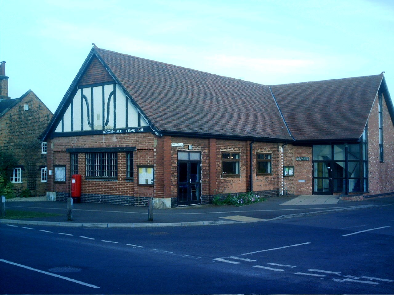 Weston on Trent Village Hall Derbyshire